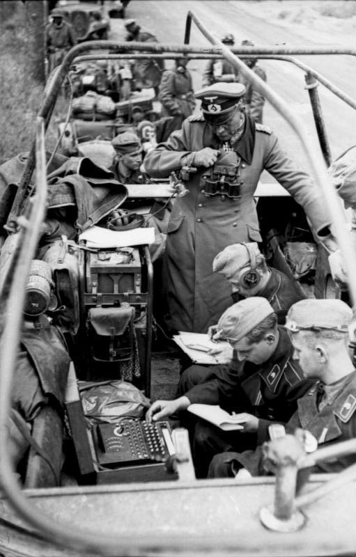 SdKfz.251/3 ausf. A armoured command vehicle